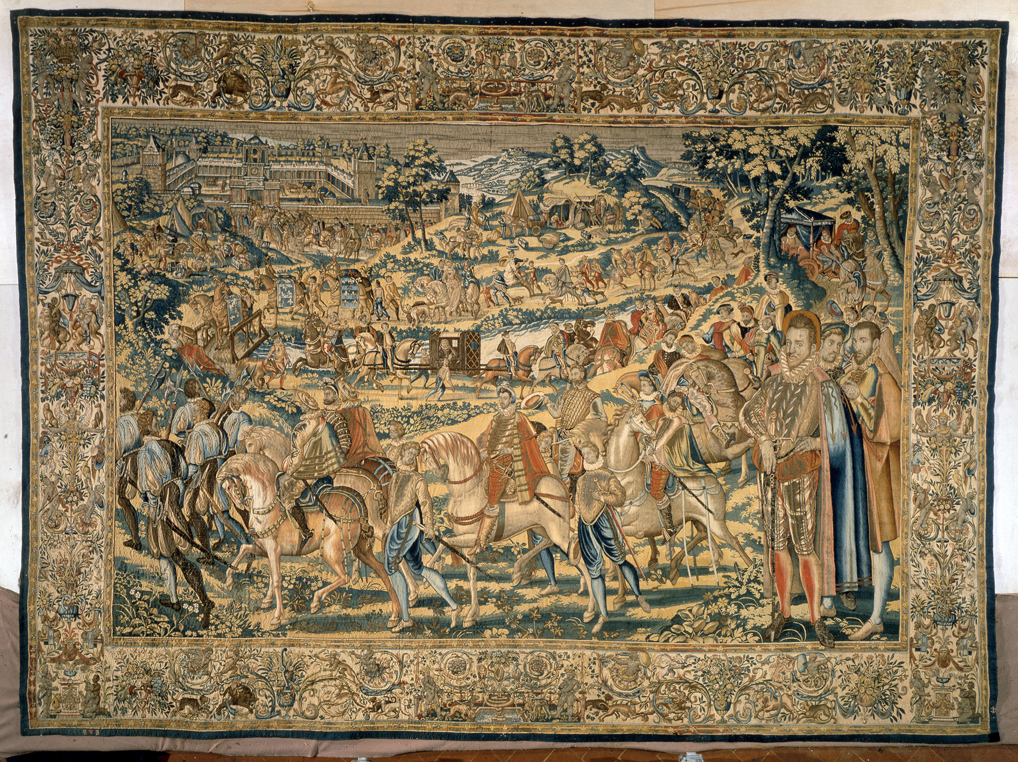 Journey, from the Valois Tapestries